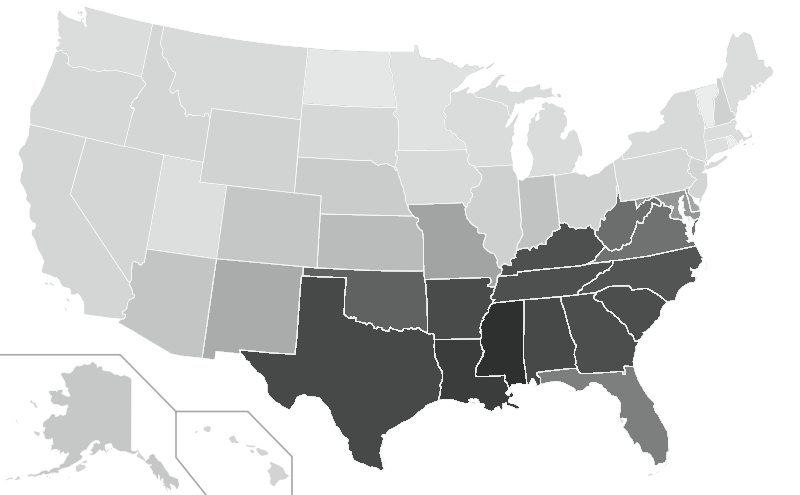 Map of requency of both the terms "Y'all" and "You all"to refer to multiple people. Based off of Harvard survey.